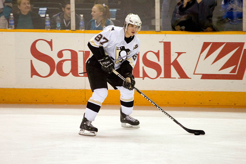 Sidney Crosby, Pittsburgh Penguins vs. San Jose Sharks